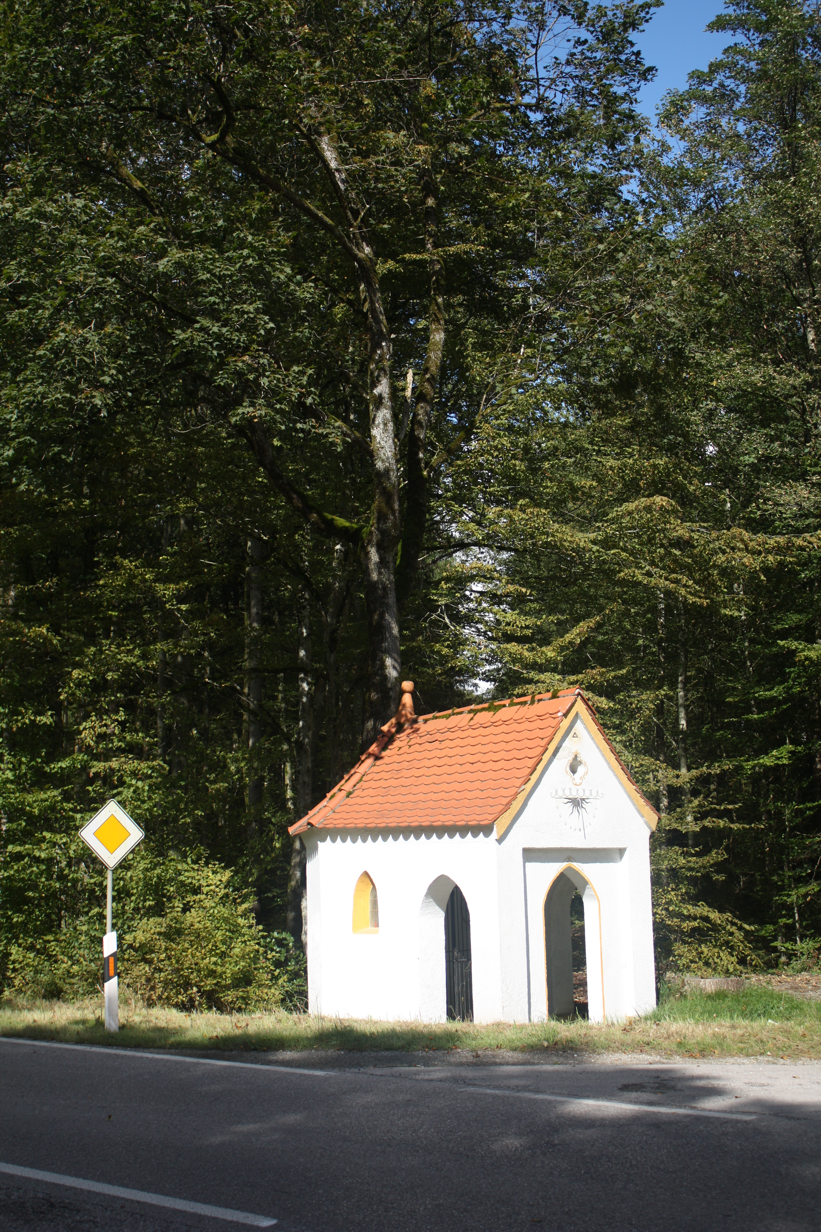 Hubertus Chapel in Ebersberger Forest, Bavaria, Germany